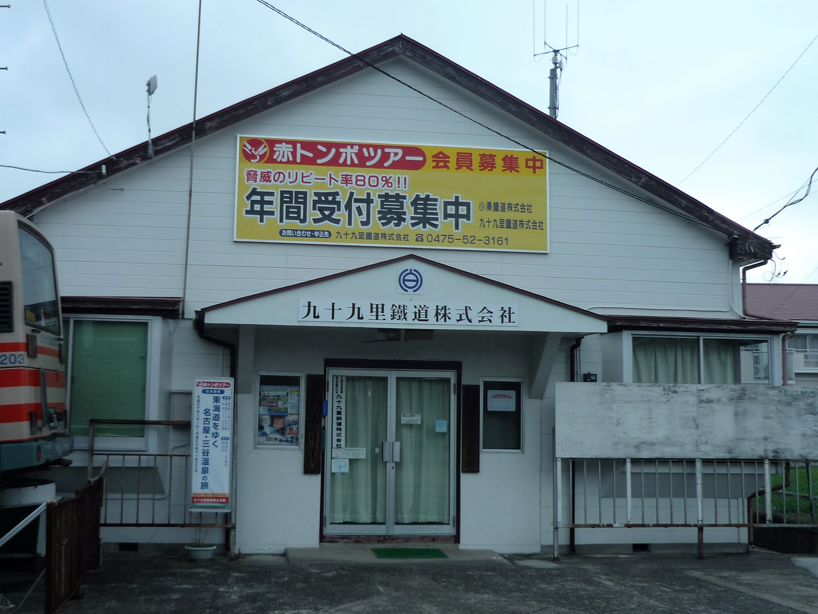 Kujukuri Railway headquarters